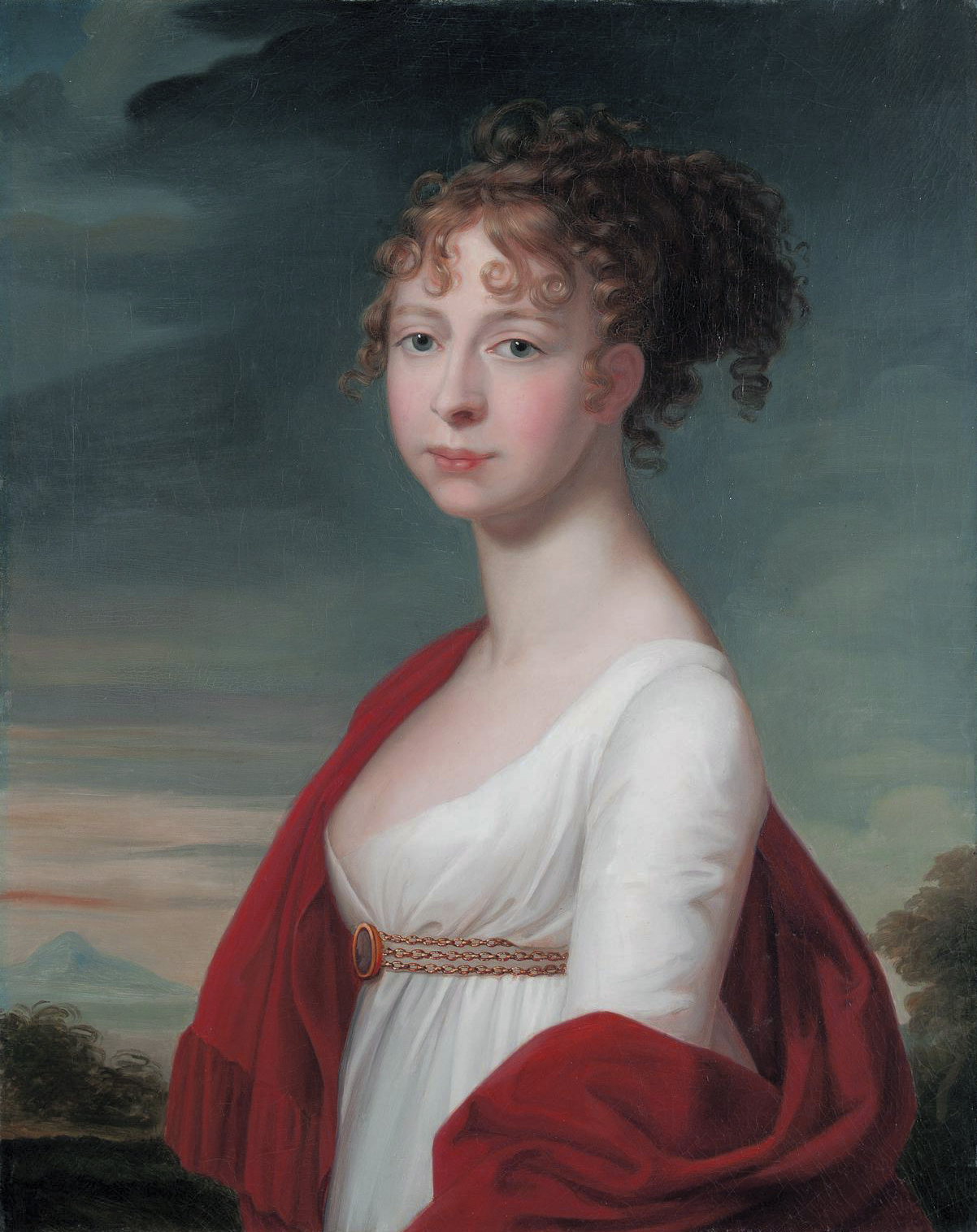 Maria Pavlovna (Grand Duchess of Saxe-Weimar-Eisenach) 1837